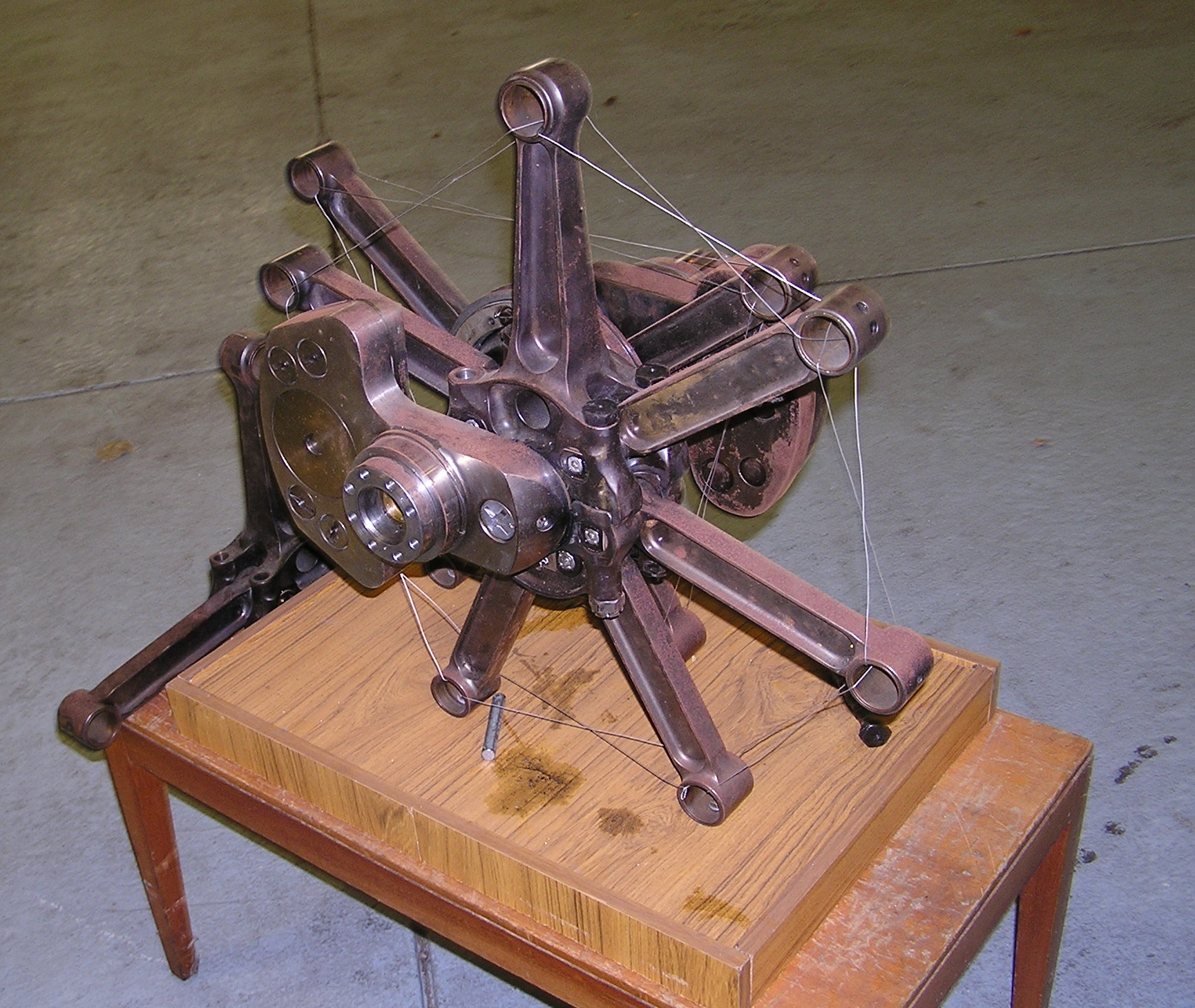 Master and slave connecting rods, with balances, from a twin row seven cylinder Pratt &Whitney Twin Wasp. On display at RAF Conningsby during an engine change to the BBMF's Dakota.